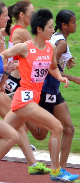 Japan's Ayako Jinnouchi (3) during 22nd Asian Athletics Championships in Bhubaneswar.